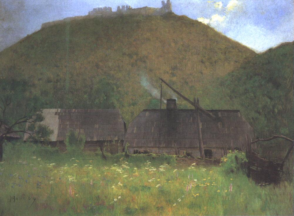 Castle of Huszt, oil on canvas, 1896